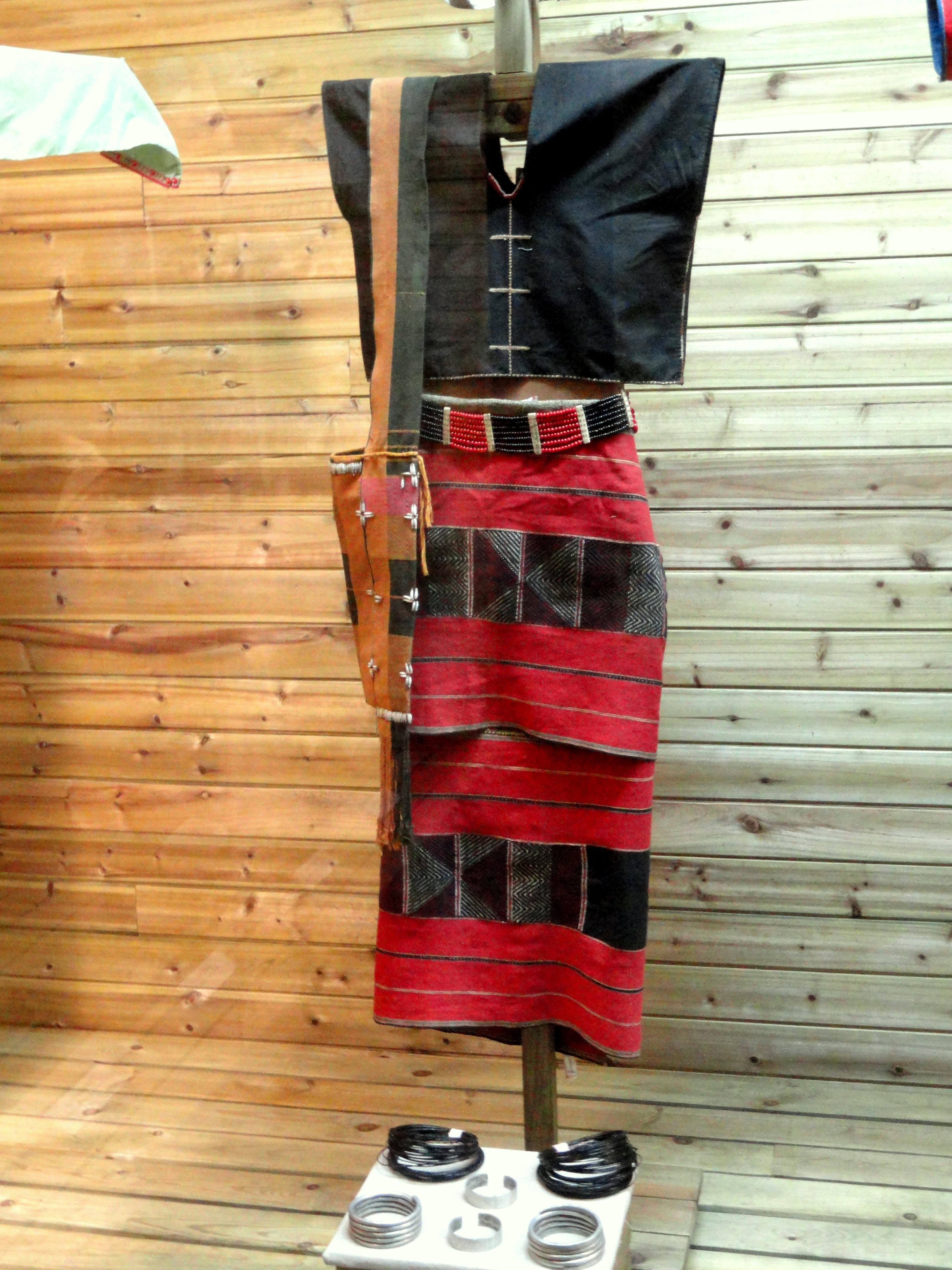 Wa woman brocade clothes. Clothing exhibited in the Yunnan Nationalities Museum, Kunming, Yunnan, China.